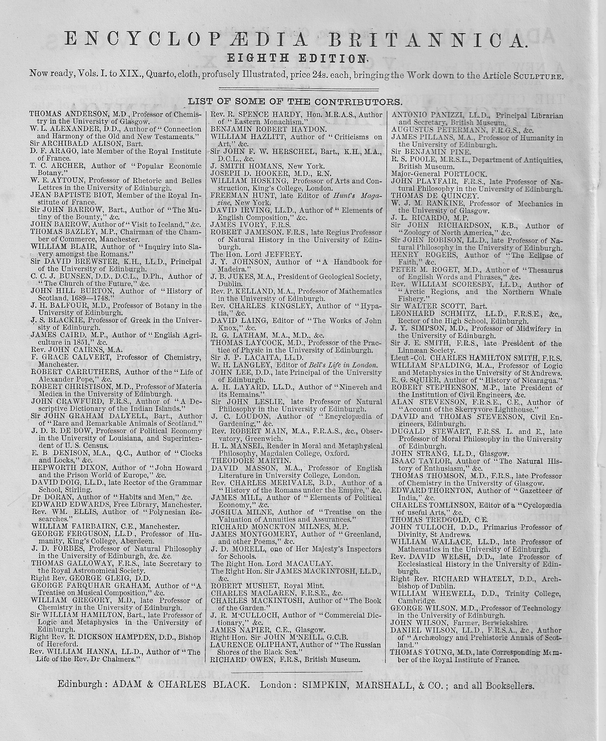 1858 advertisement for Encyclopaedia Britannica's 8th edition, of which volumes 1 through 19 were available cloth-bound for 24 shillings each. List of contributors also.